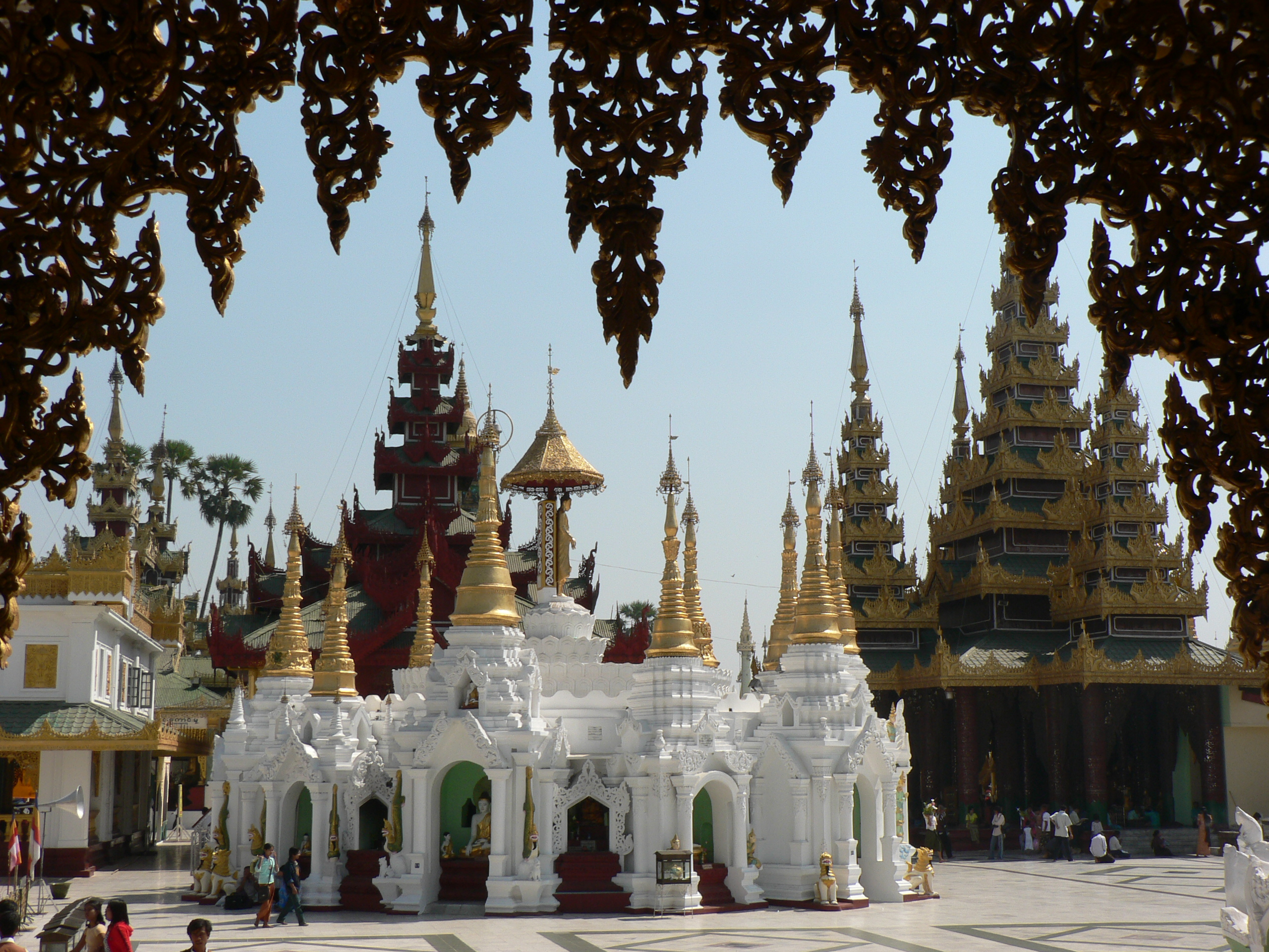 Shwedagon pagoda, Yangon, Myammar